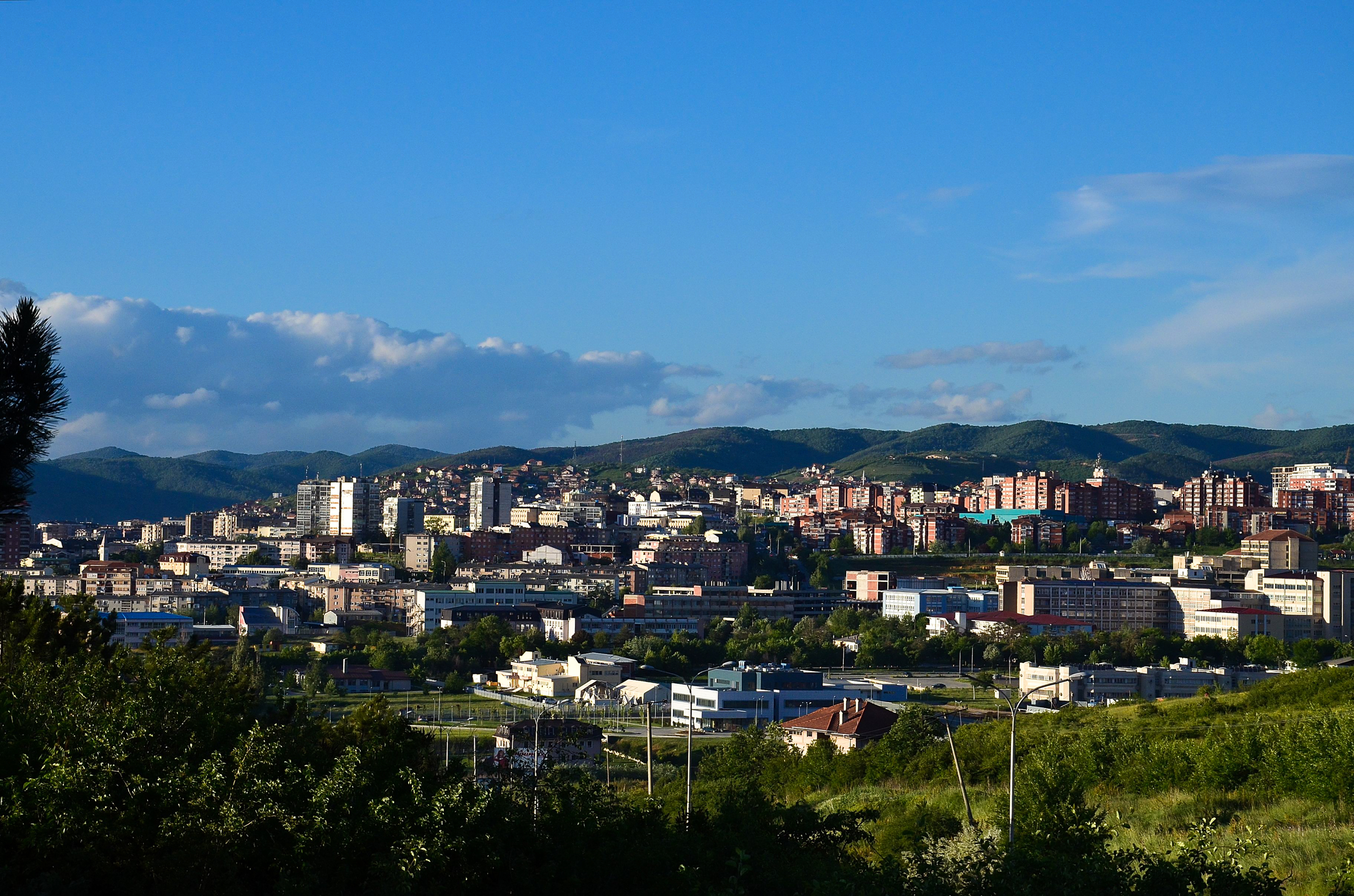 Prishtina the capital city of Kosova , Spring season